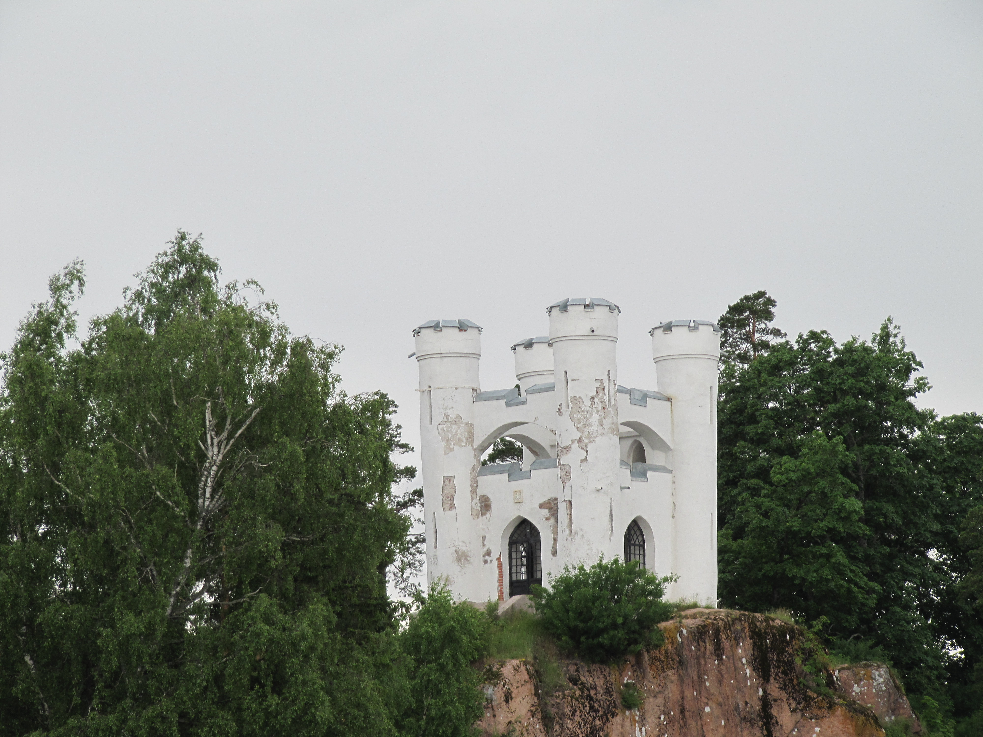 Ludwigsburg Chapel on the Ludwigstein Island in Monrepos. Neoclassicism, 1822-1830, by Charles Hitkot Tetam.